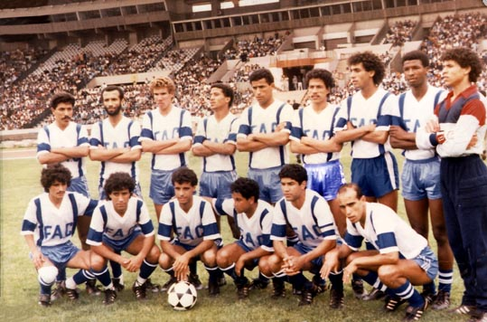 Members of the FAC Sbata football team of Sbata, a district of Casablanca, Morocco.